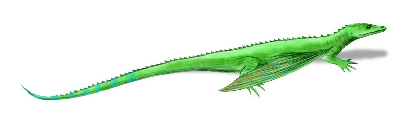 Rautiania alexandri, an Avicephala from the Late Permian of Russia, after Bulanov and Sennikov, 2006. Reconstruction is hypothetical due to the fragmentary nature of the uncovered remains and based on the related Coelurosauravus. pencil drawing, digital coloring